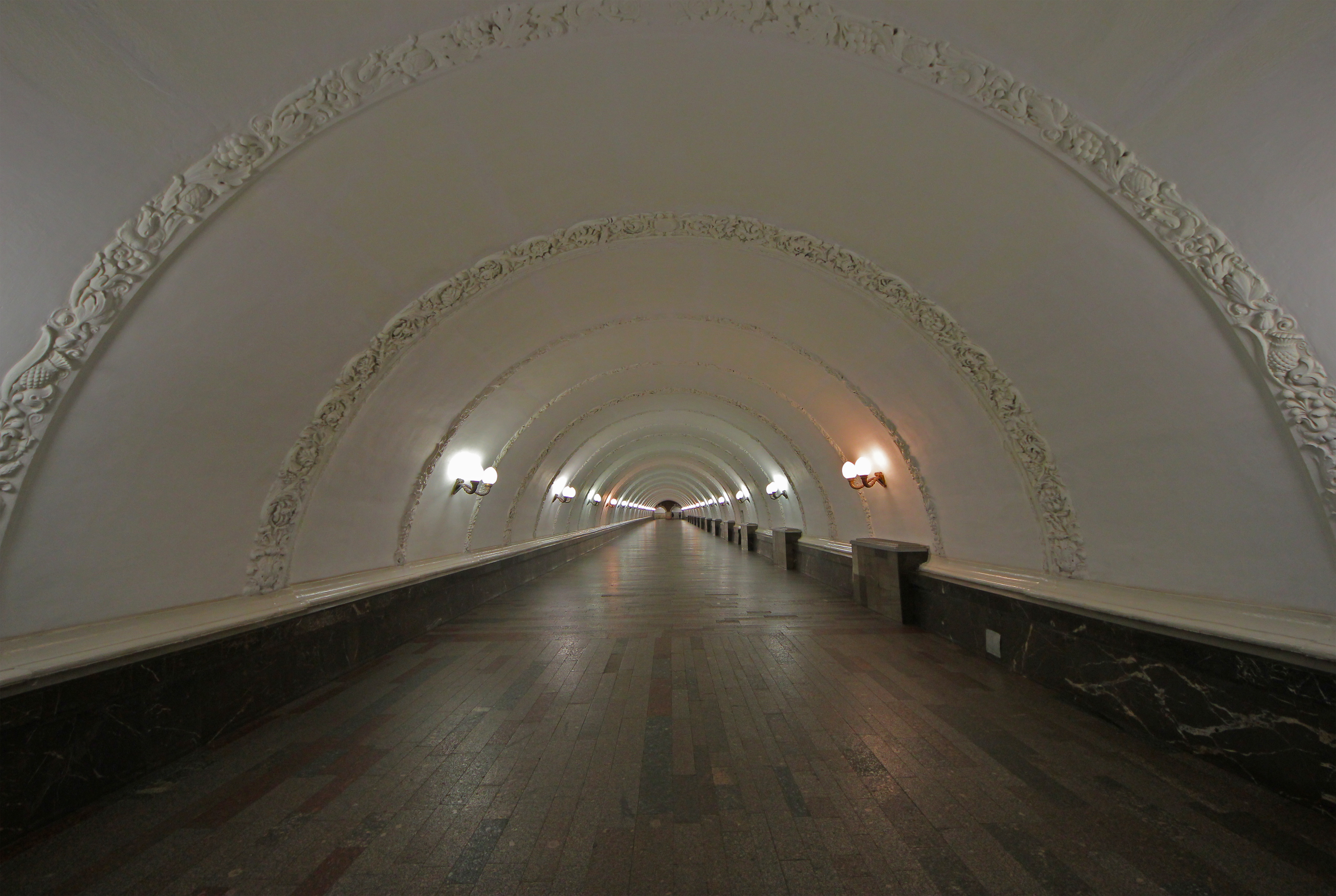 Teatralnaya metro station in Moscow (architect: Ivan Fomin (1872-1936)). The image shows the old gate to Okhotny Ryad station.